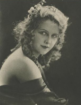 Diana Allen, from a 1921 publication.